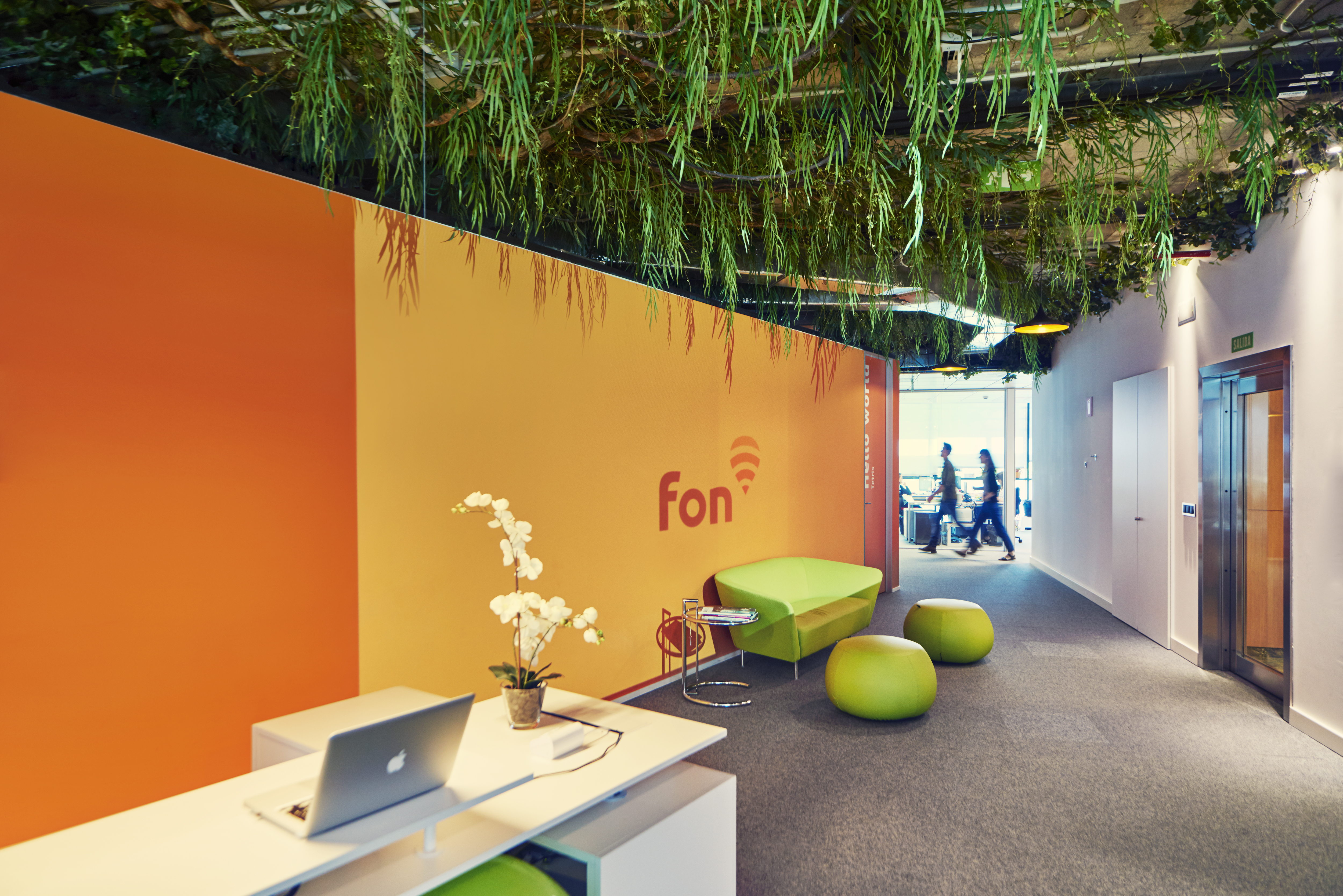 Fon's bright HQ in Madrid